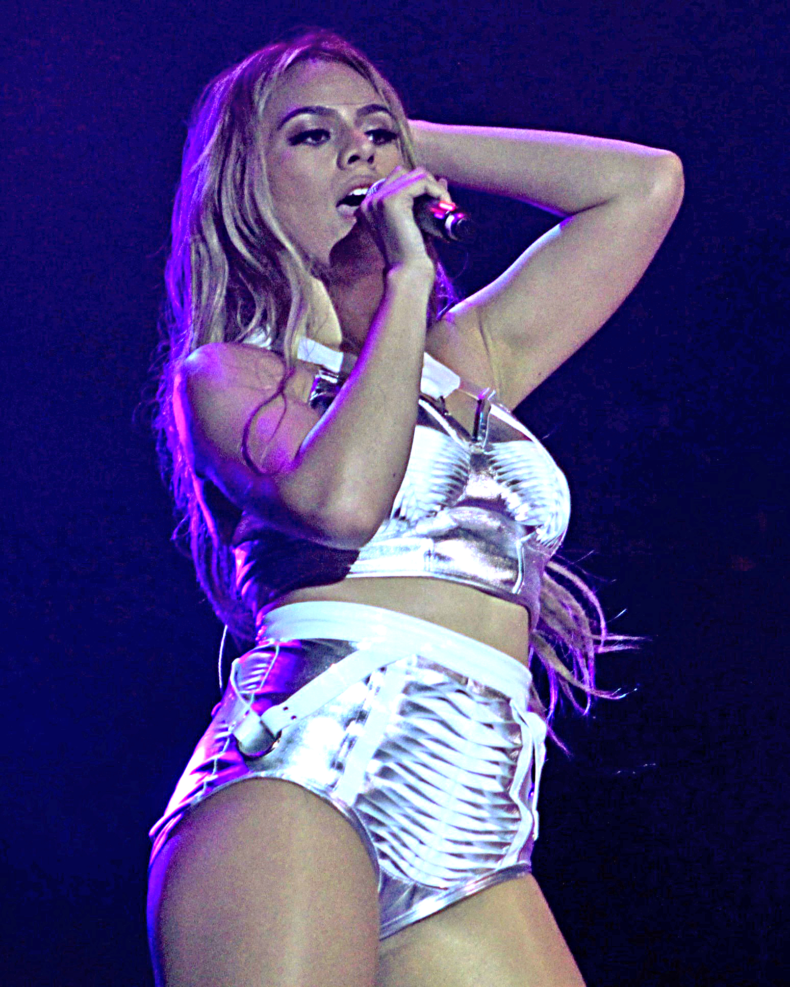 Dinah Jane performing with Fifth Harmony in Los Angeles during 2017. Cropped and edited minorly for Wikipedia